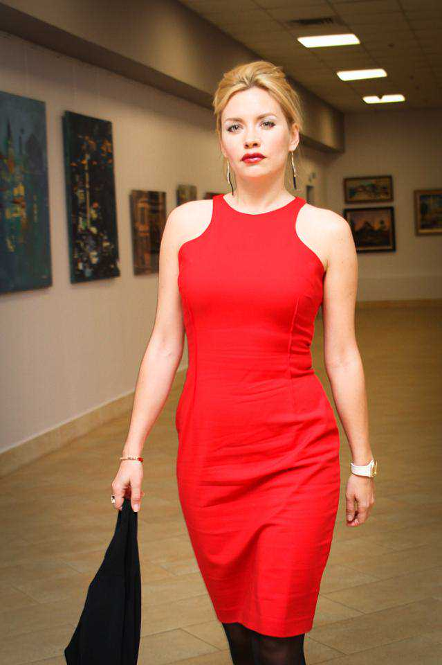 Official picture of a person to use on the page of Christina Katrakis